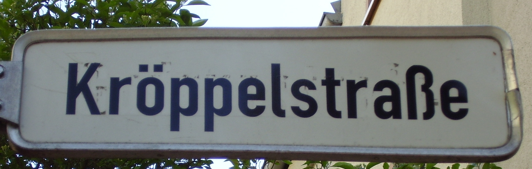 Braunschweig (City) — Kröppelstr. — Street sign